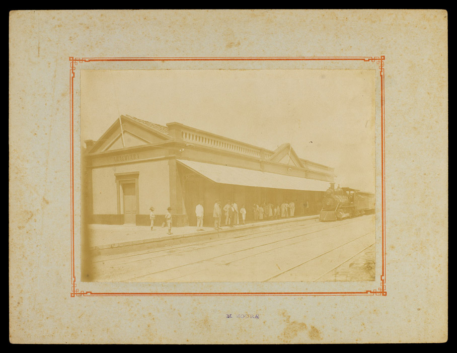 Aracoiaba Railway Central Station